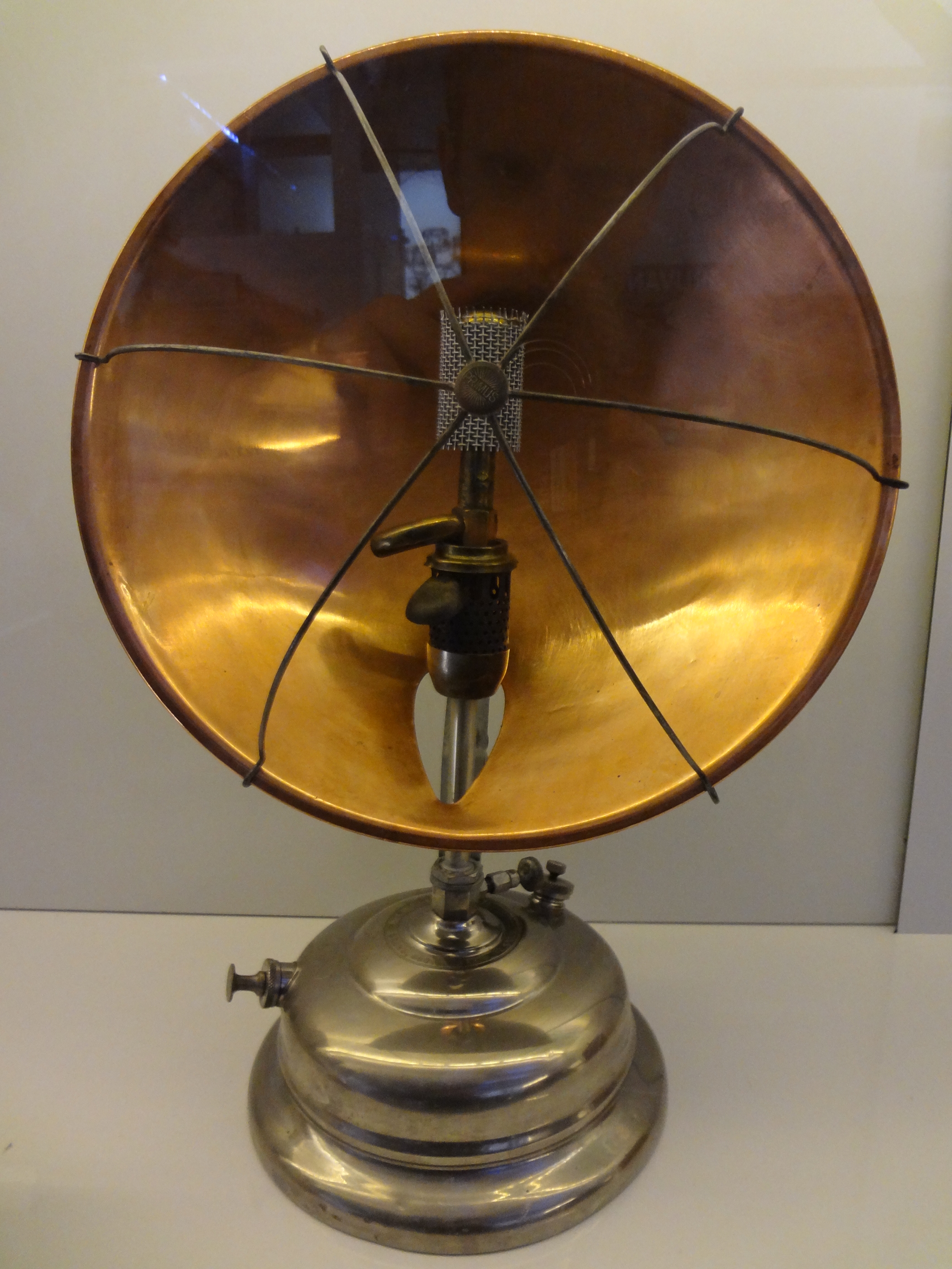 Radiator, type 1010 made by Swedish company Primus AB in 1929. See also: TEKS0029191